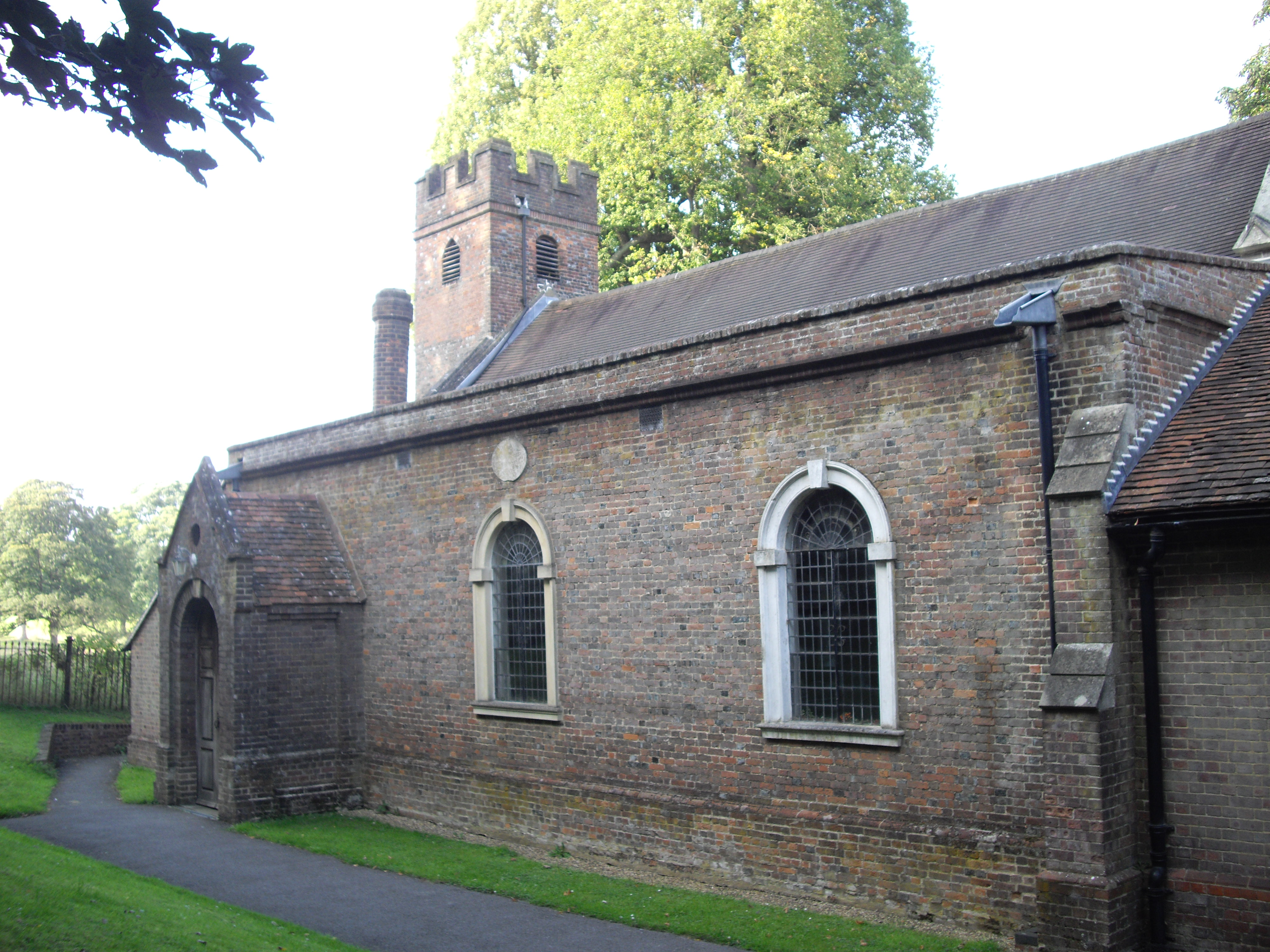 Nave and north tower of St John the Baptist's parish church, Markyate, Hertfordshire, seen from the south